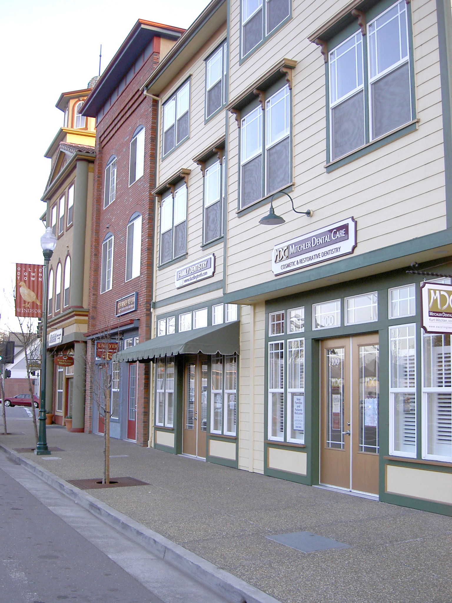 "old downtown" buildings at 100 Windsor River Rd. in Windsor